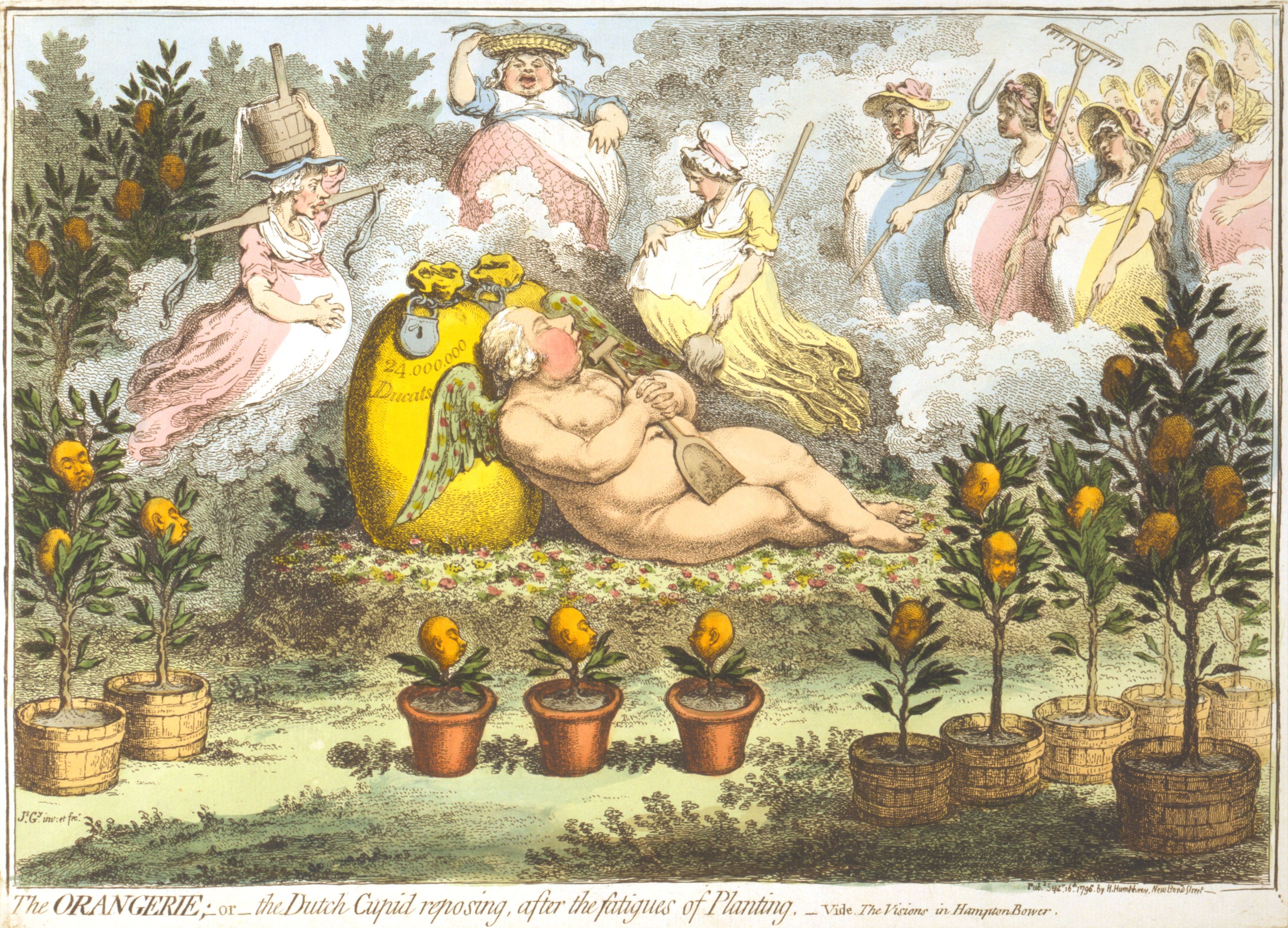 The Orangerie;—or—the Dutch Cupid reposing after the fatigues of Planting / Js. Gy. inv: et fect. CALL NUMBER: PC 1 - 8822 (B size) [P&P] REPRODUCTION NUMBER: LC-USZC4-8765 (color film copy transparency) SUMMARY: William V, Prince of Orange, as a fat, naked Cupid, reclining on a platform of grass and flowers and leaning on a bag of money marked 24,000,000 ducats. In the foreground are a number of orange plants with each orange bearing the likeness of the prince. In the background, as if in a dream, are many heavily pregnant women: a milkmaid, a fishmonger, a house maid, and many farm women. MEDIUM: 1 print : etching, hand-colored. CREATED/PUBLISHED: [London] : H. Humphrey, 1796 Septr 16th.